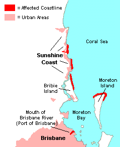 A small, basic map of affected areas in the en:2009 Queensland oil spill. Map created by myself using the sunshine coast map as a guide.